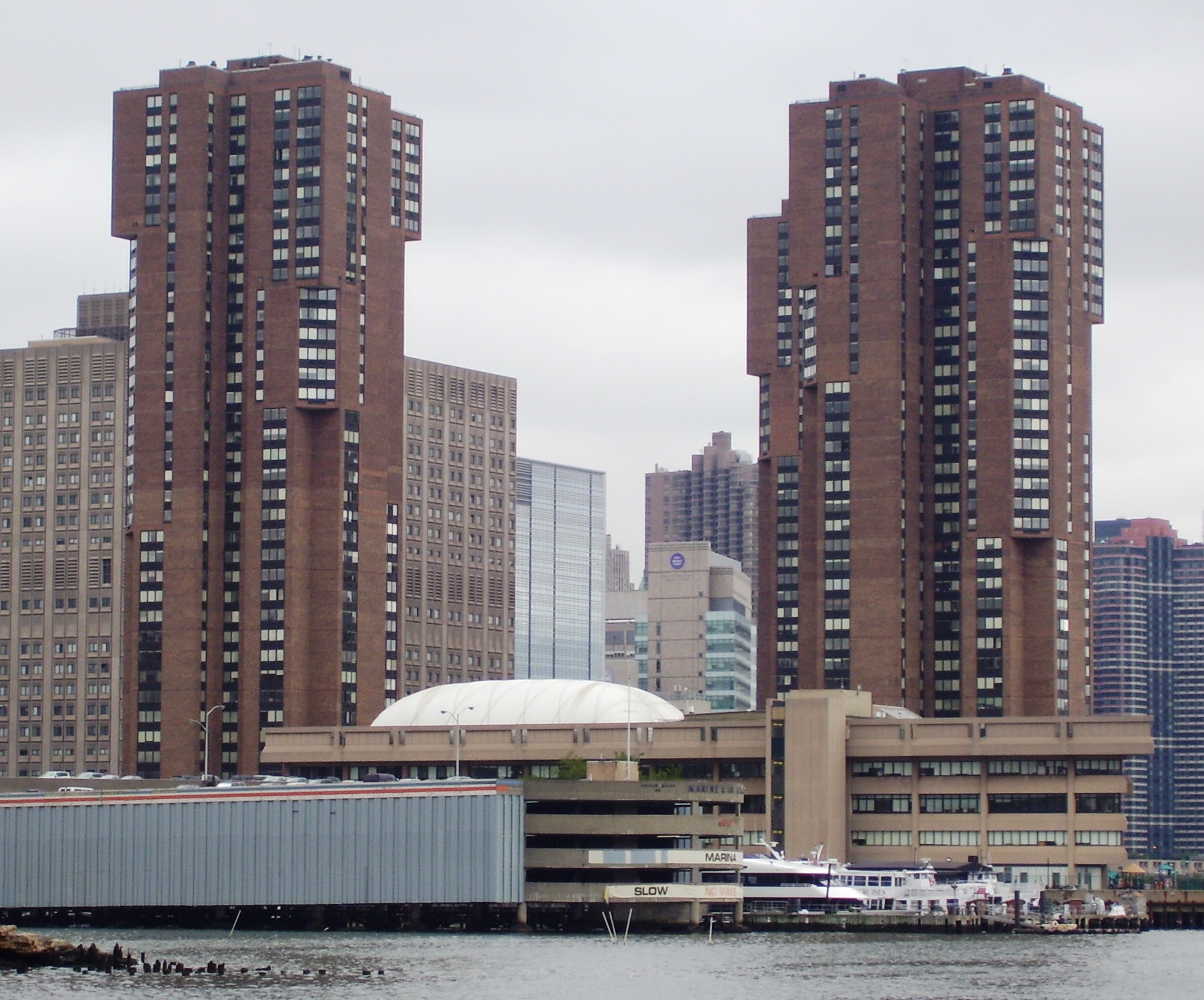 Waterside Plaza on the East River in Manhattan, New York City, as seen from Stuyvesant Cove Park. In the foreground, the United Nations International School (with the white air dome) and a parking structure.